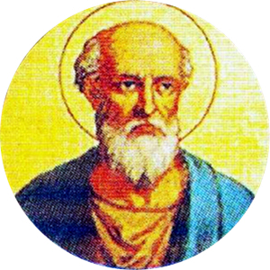 Portrait of Pope Saint Evaristus I in the Basilica of Saint Paul Outside the Walls, Rome